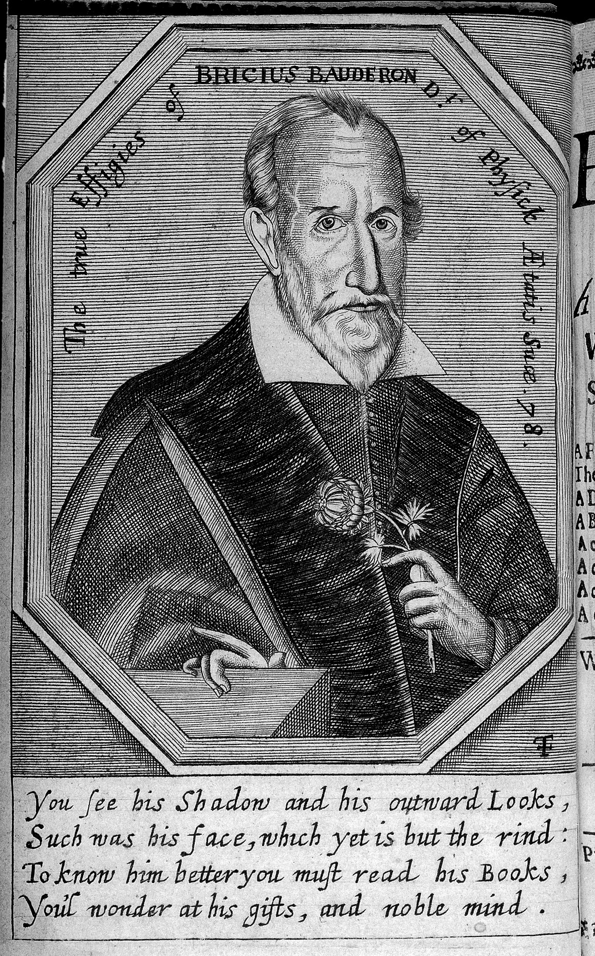 BAUDERON, Brice {ca. 1540-1623} B. Bauderon, The expert physician: learnedly treating of all agues and feavers ... London : R.I. for J. Hancock, 1657 Frontispiece portrait You see his Shadow and his outward Looks Such was his face, which yet is but the rind: To know him better you must read his Books, You'l wonder at his gifts, and noble mind. Rare Books Keywords: bauderon, brice {ca. 1540-1623; epb; THERAPY